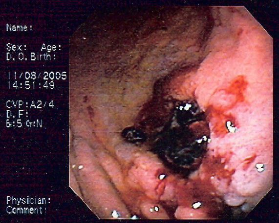 Endoscopy image of pathology proven MALT lymphoma, from body of stomach. Presented into open domain on permission of patient. -- Samir à¤§à¤°à¥ à¤® 06:42, 7 March 2006 (UTC)